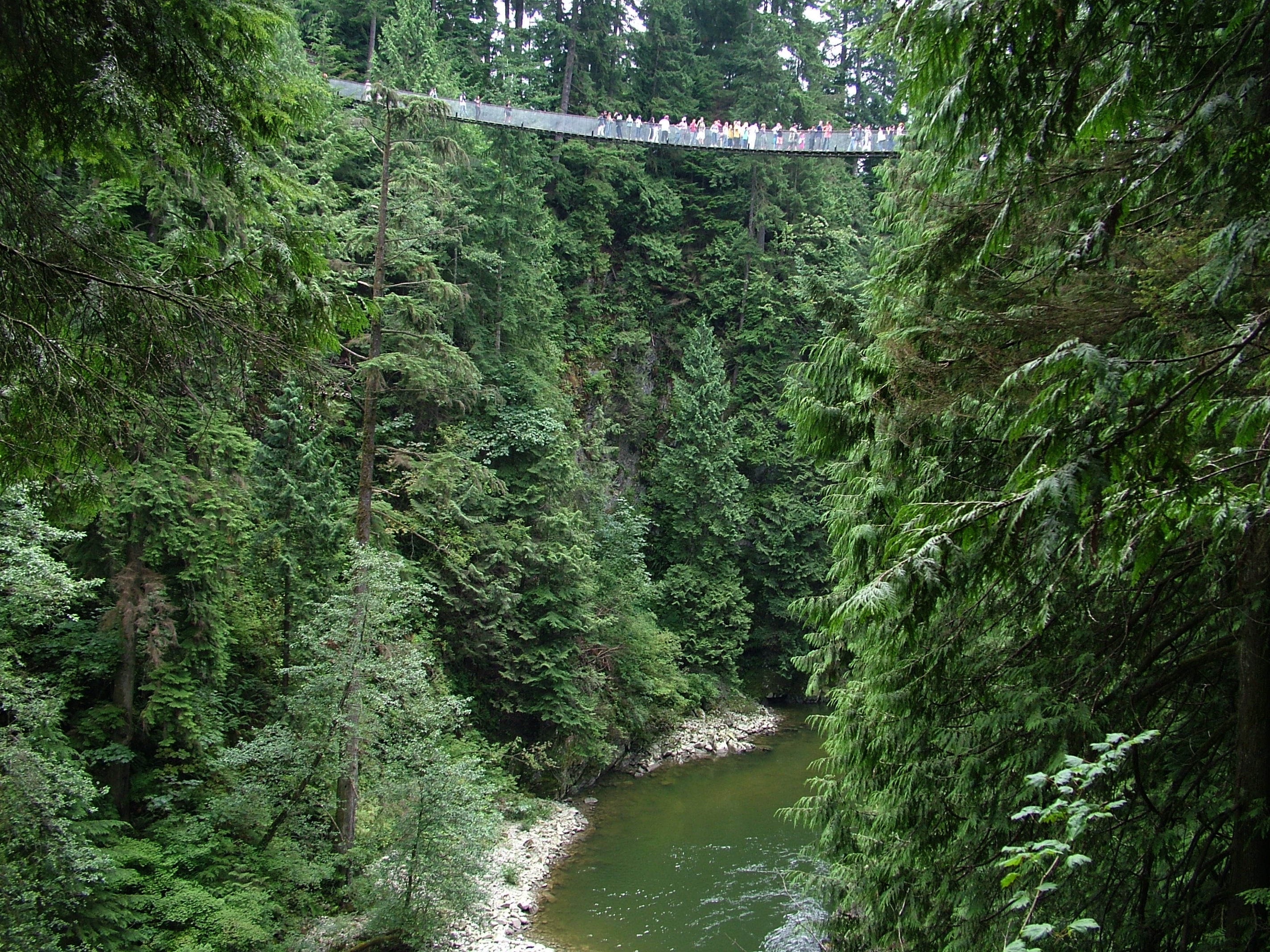 Capilano Suspension Bridge